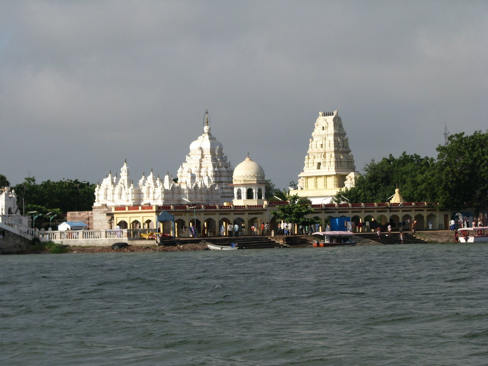 A distant view of KudalaSangama temple.It is in Bagalkot district of Karnataka,India.This is the place where a renowned Kannada poet and revolutionist "Krantiyogi" Basavanna achieved his "Samadhi".